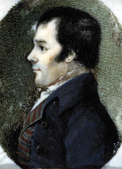 Robert Burns, the national poet of Scotland, by Alexander Reid.